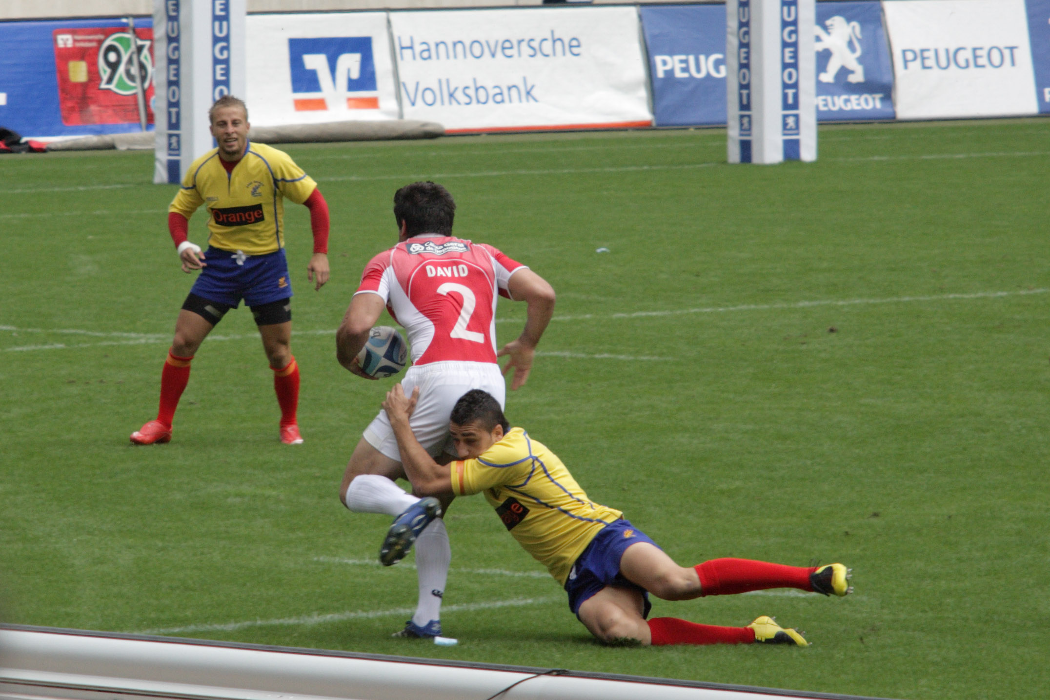 European Sevens 2008 (Hannover Sevens) tournament in Hannover, Germany. Third game of group A: Portugal vs Romania. David Mateus is tackled by a Romanian player. The final score was 38:0 for Portugal.